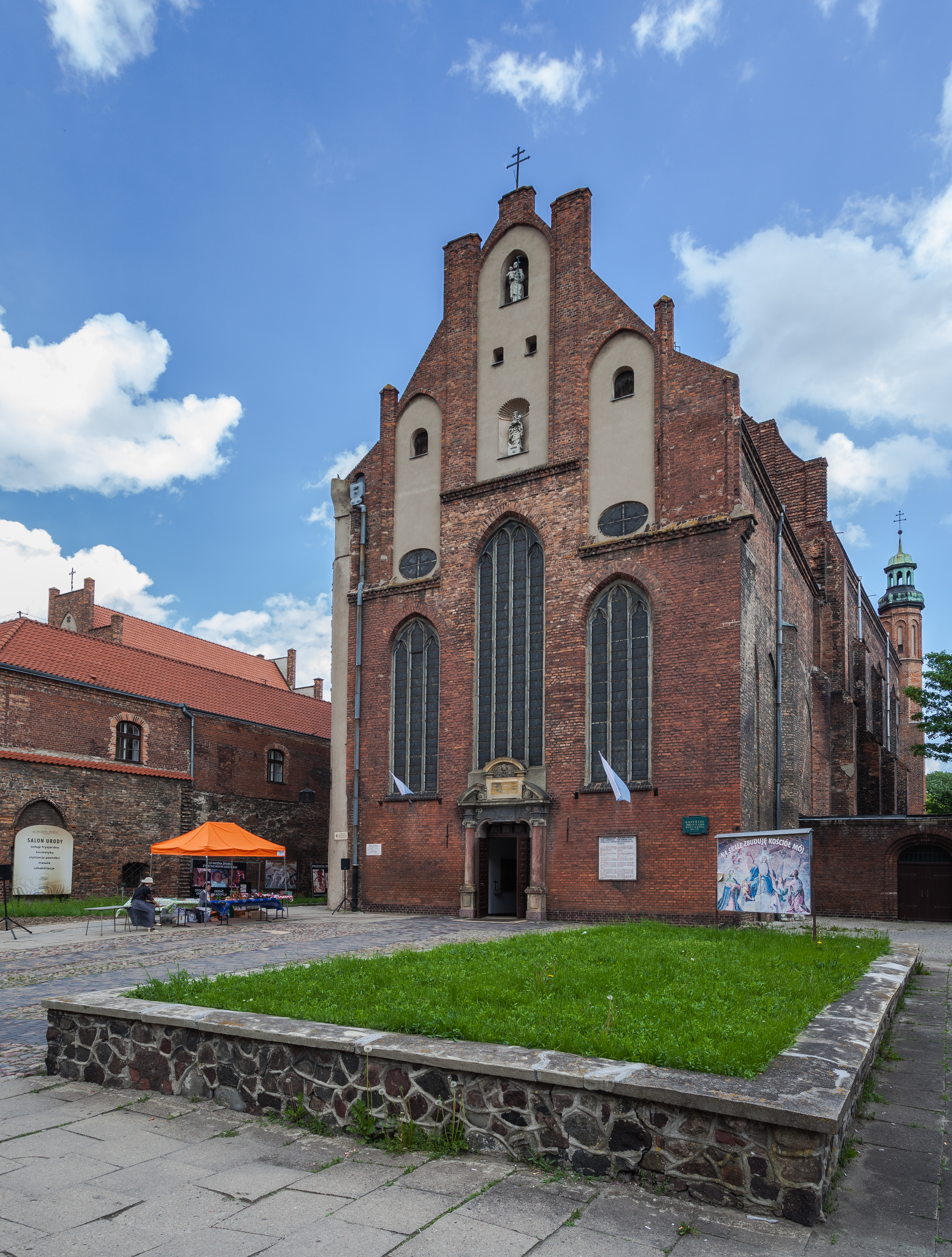 St. Joseph church, Gdansk, Poland